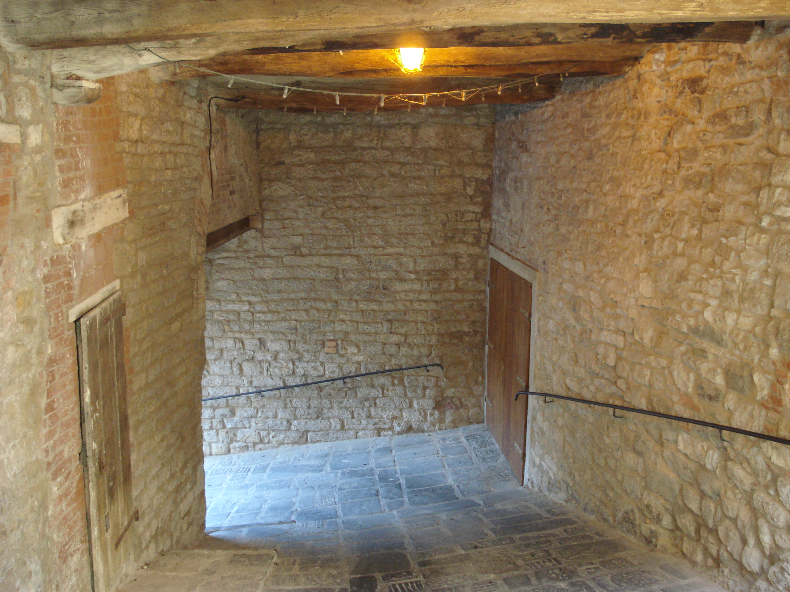 The castle of Sasso Pisano